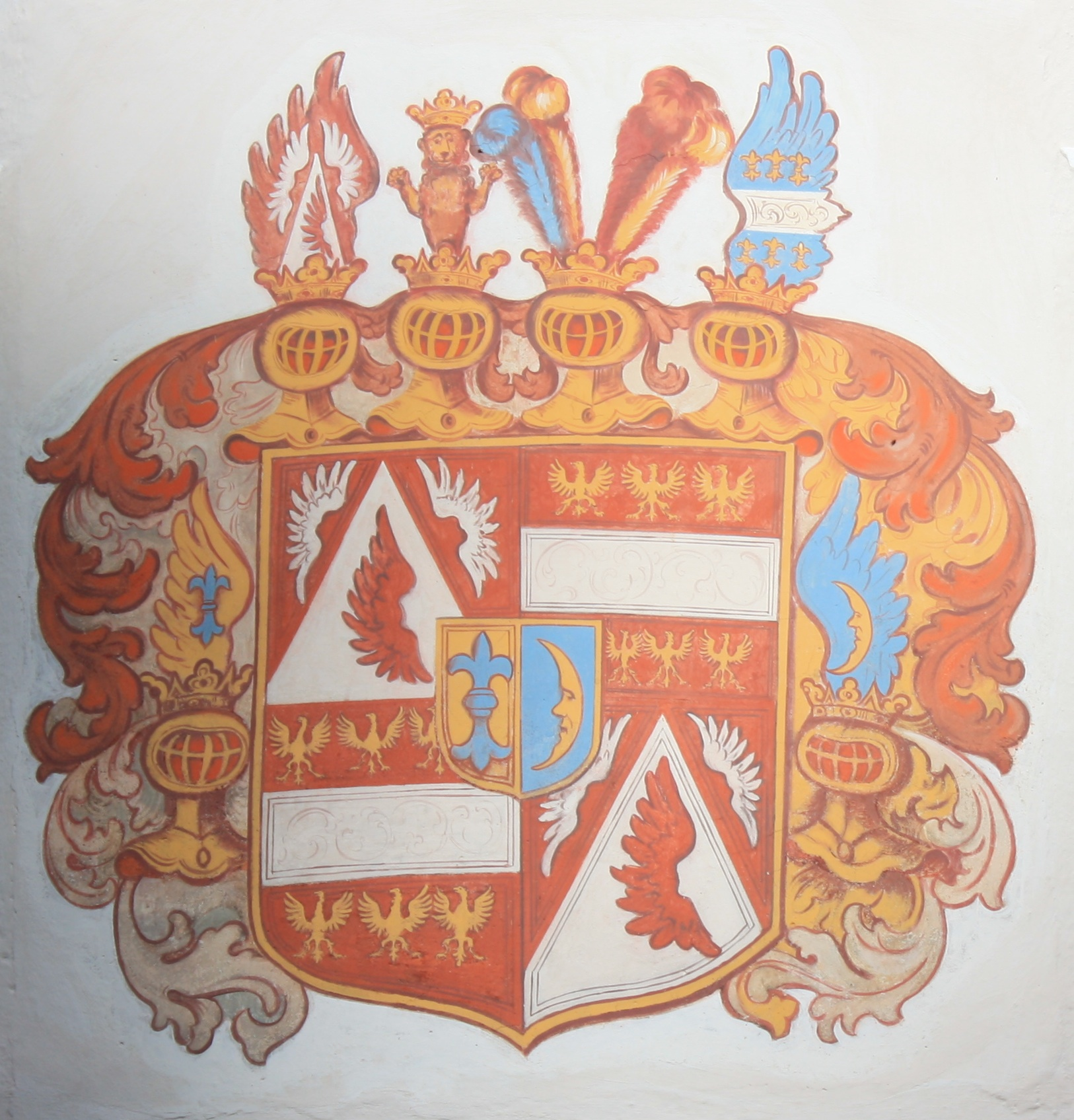 Kreuzen Castle - Coats of arms Locality: Kreuzen Community:Paternion